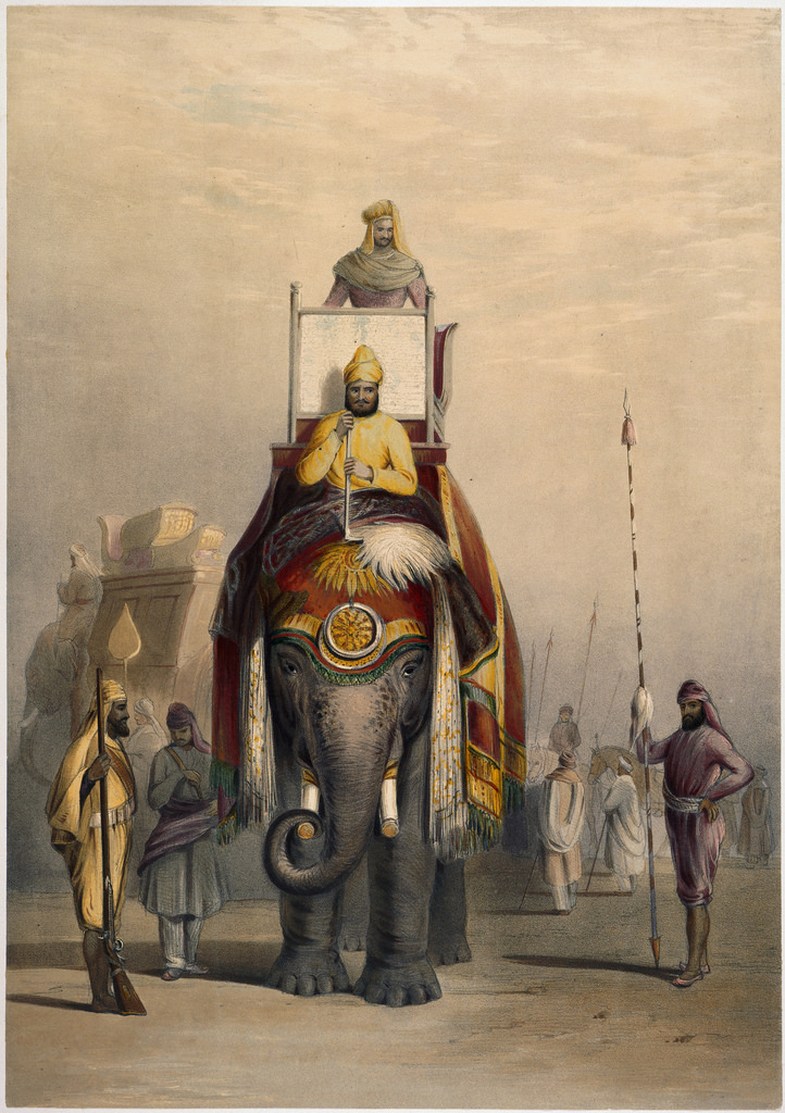 Indian king